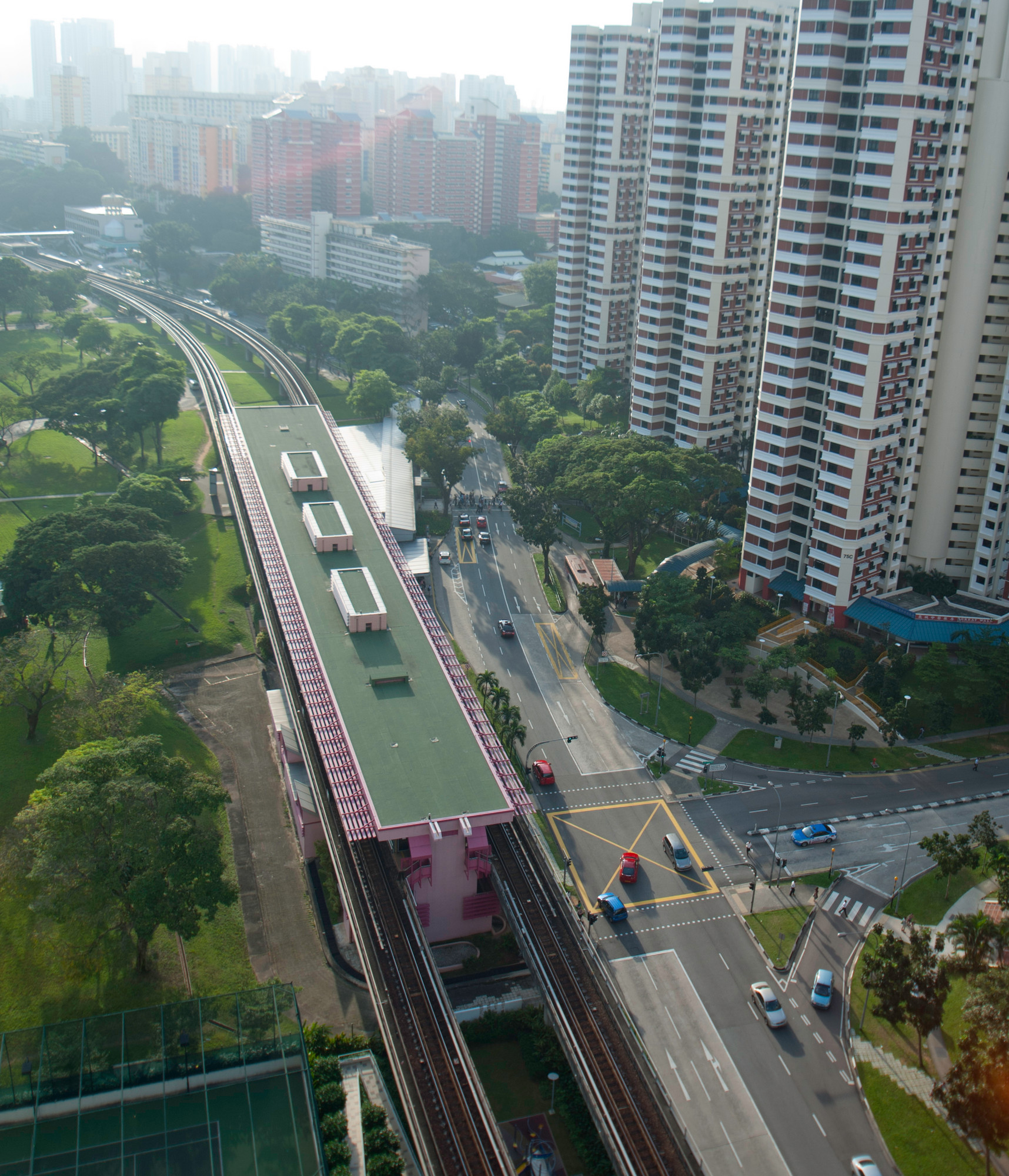 View of Singapore's RedHill MRT station viewed from above. The western tunnel entrance on the EW (green) line is visible in the top left of the image.